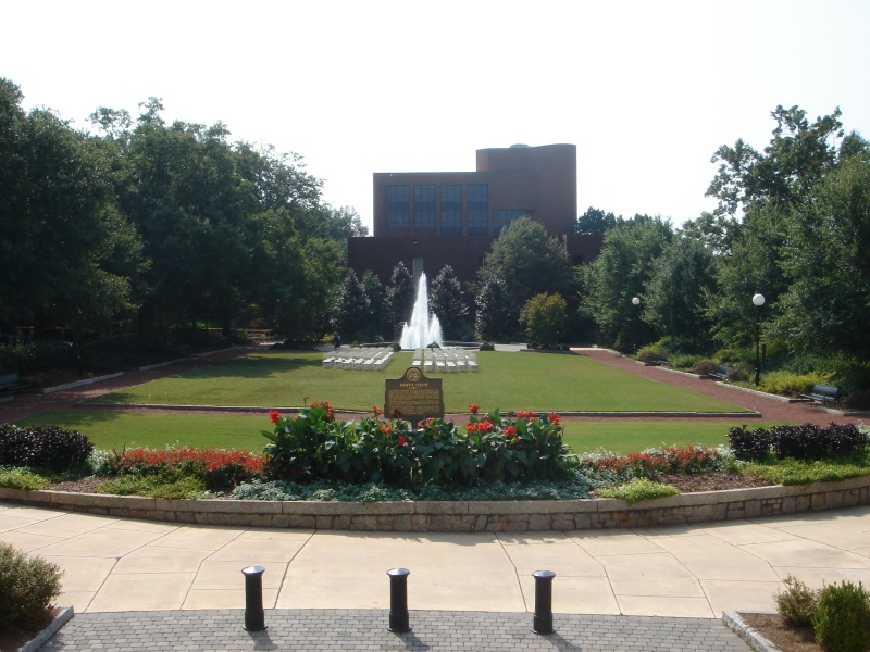 This image shows Herty Field from the steps of Moore College at the University of Georgia in Athens, Georgia. This photograph was taken by User:pruddle (the uploader) in